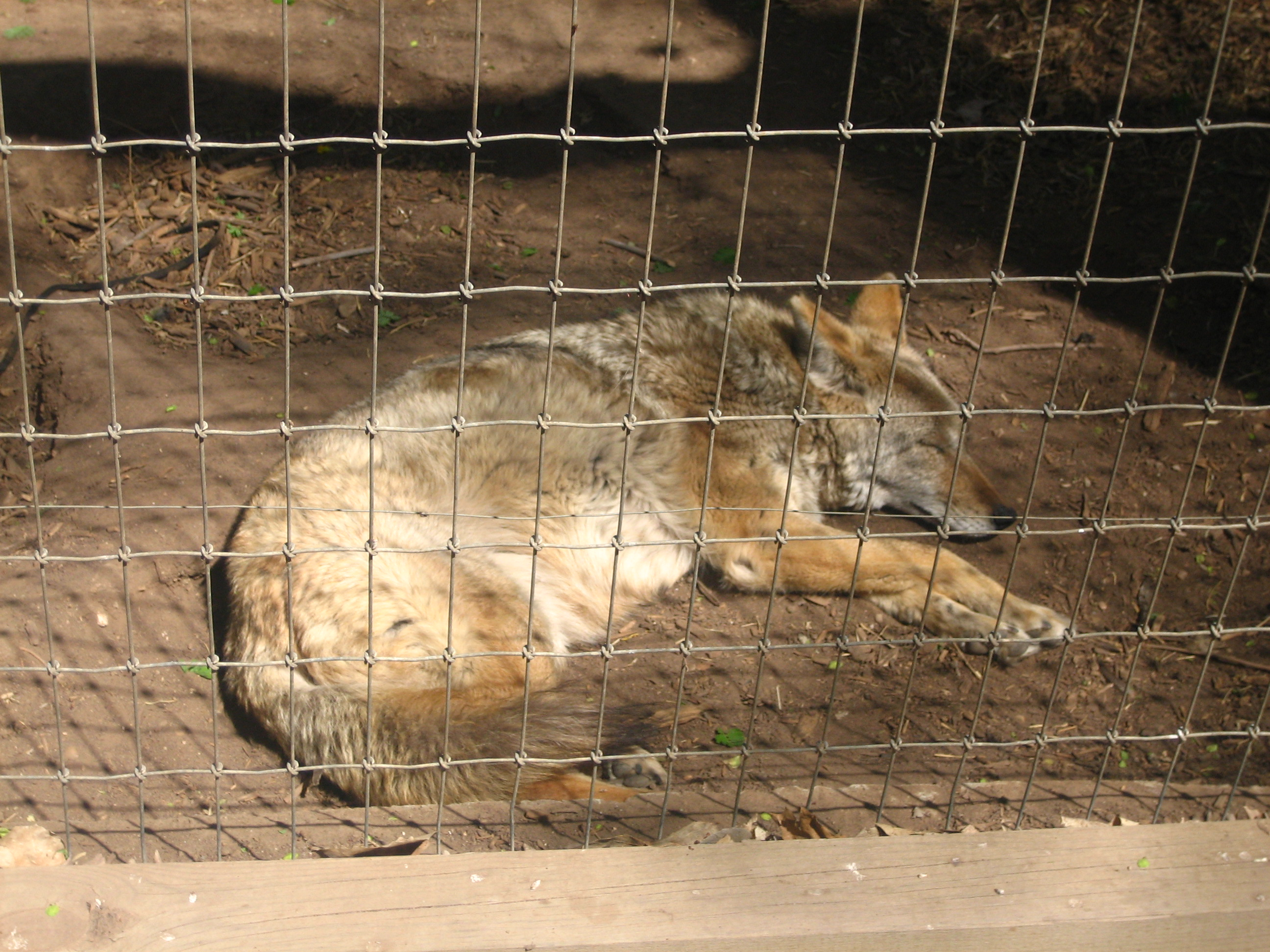 I took photo on April 6, 2008.Billy Hathorn (talk) 02:11, 27 June 2008 (UTC)